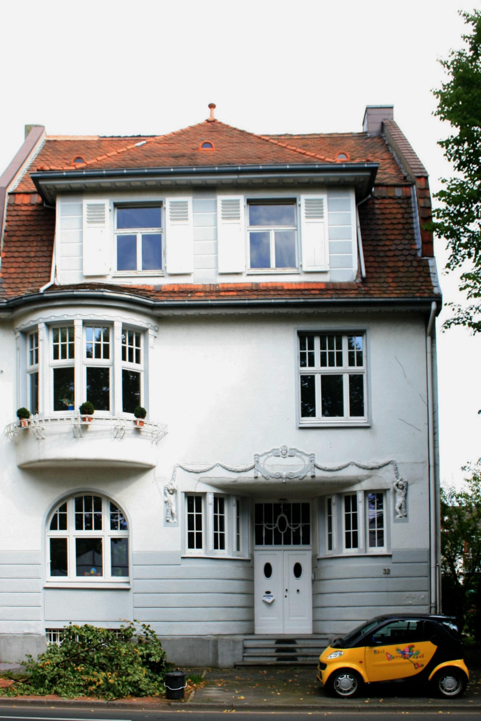 Cultural heritage monument No. T 010 in Mönchengladbach